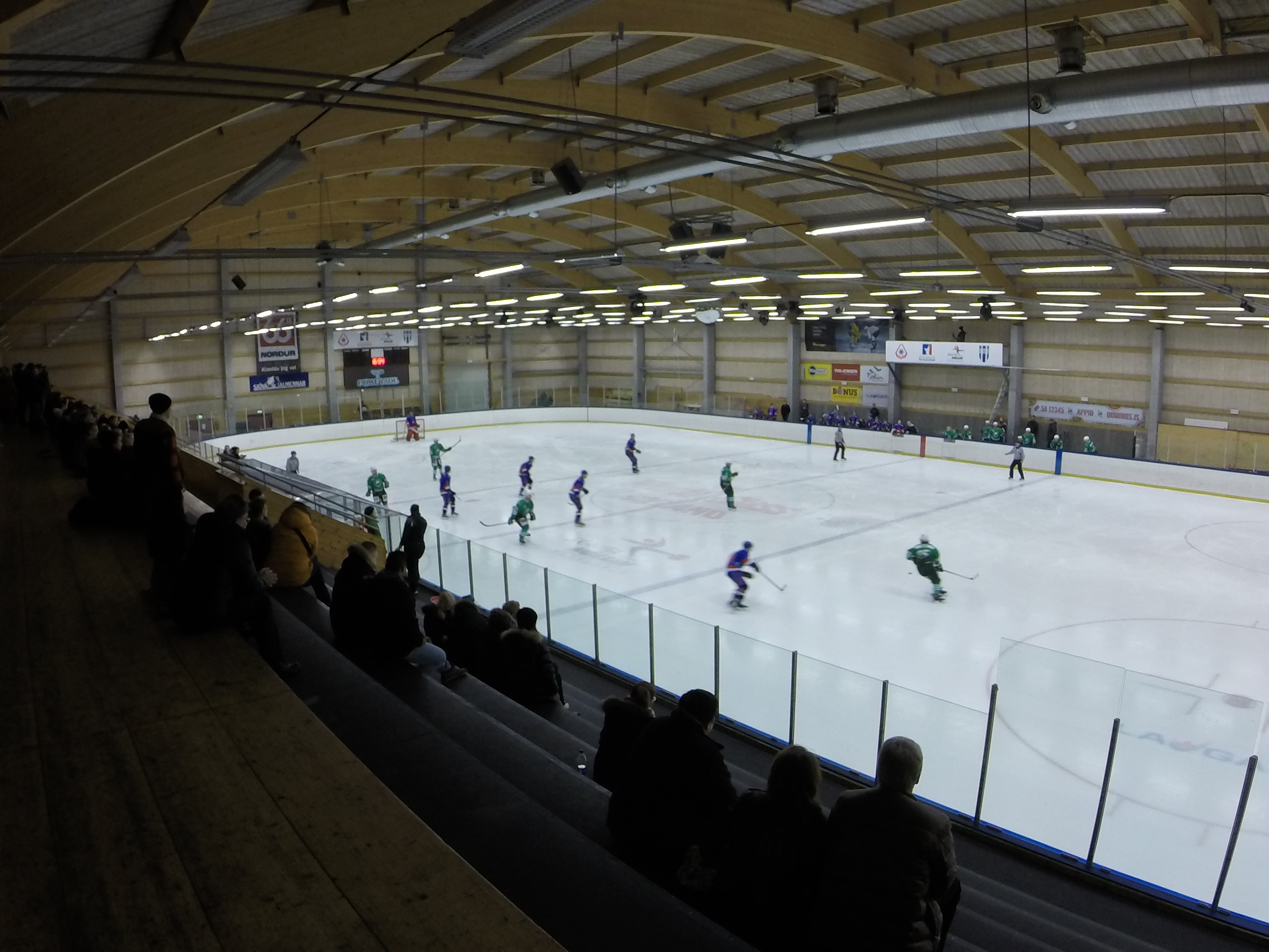 Ice hockey game between Skautafélag Reykjavíkur and UMFK Esja at Skautahöllin Laugardal.